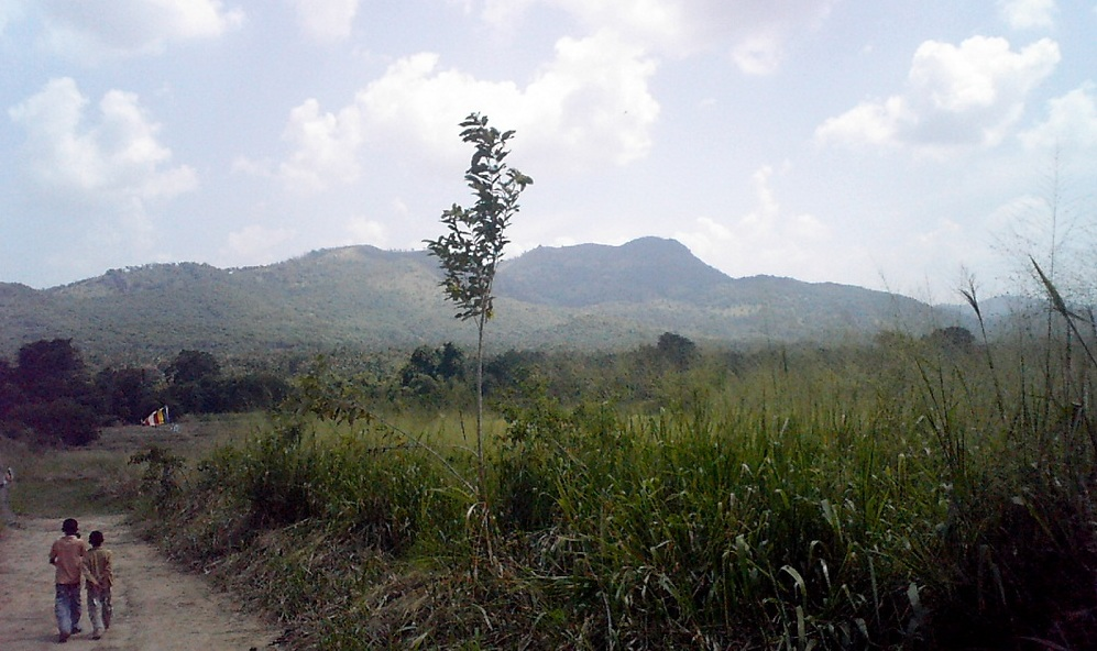 The Dummiya Mountains range is the home to Na Uyana Aranya, a large Buddhist Forest Monastery in Sri Lanka. සිංහල: ශ්‍රී ලංකාවේ කුරුණෑගල දිස්ත්‍රික්කයේ පිහිටි මෙම දුම්මීය කඳුවැටියෙහි නා උයන ආරණ්‍ය සේනාසනය පිහිටා ඇත.